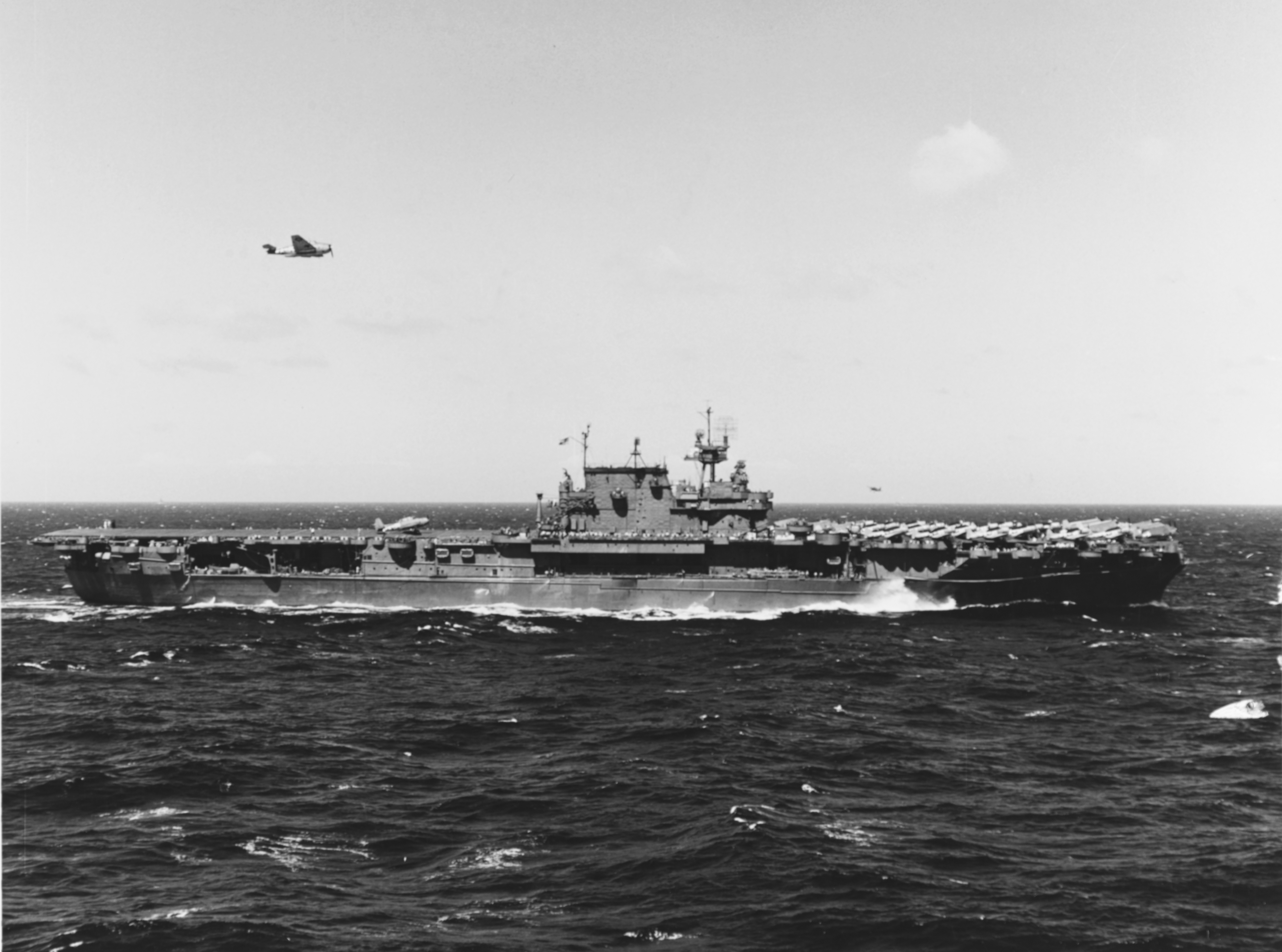 A U.S. Navy Grumman TBF-1 Avenger of Torpedo Squadron 6 (VT-6) flies over the aircraft carrier USS Enterprise (CV-6) as she conducts flight operations in the Central Pacific while supporting the Gilberts Operation, 22 November 1943.